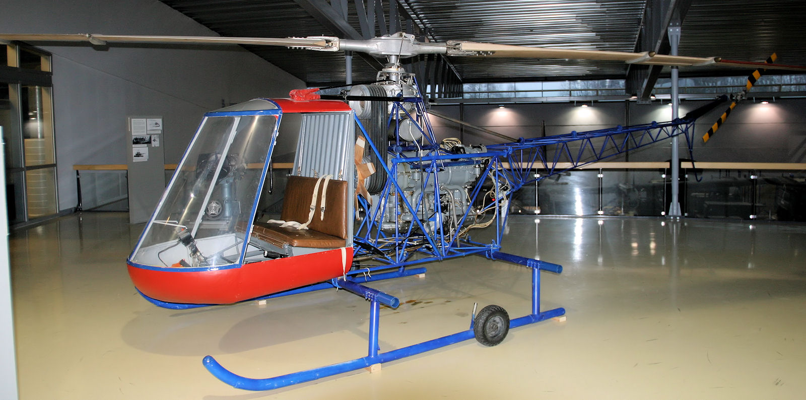 Kjeller PK X-1, Forsvarets flysamling, Gardermoen